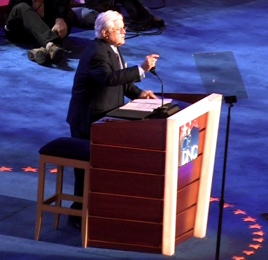 Senator Ted Kennedy delivers his speech on the first night of the 2008 Democratic National Convention.